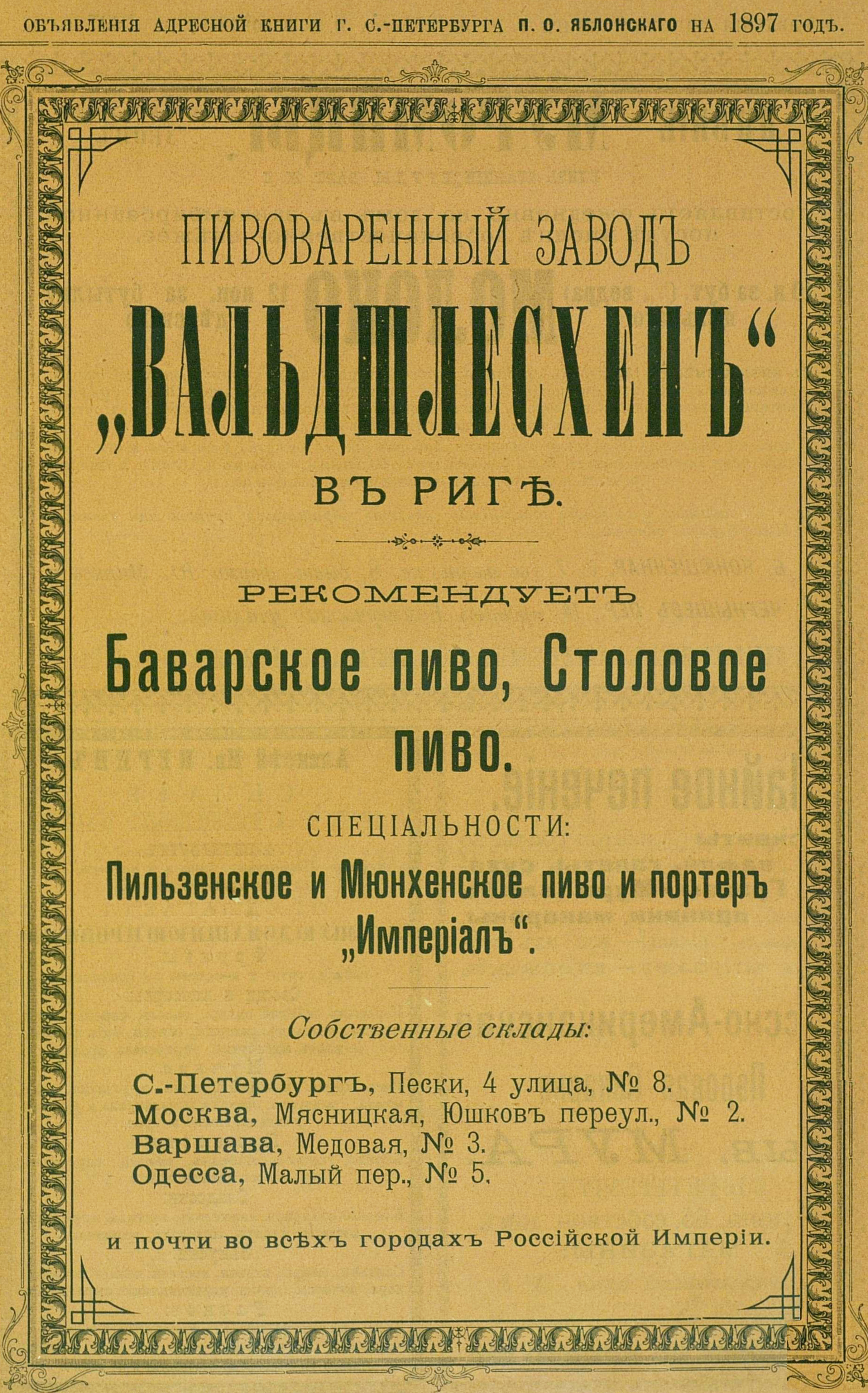 Advertising brewery "Waldschlösschen", 1897.